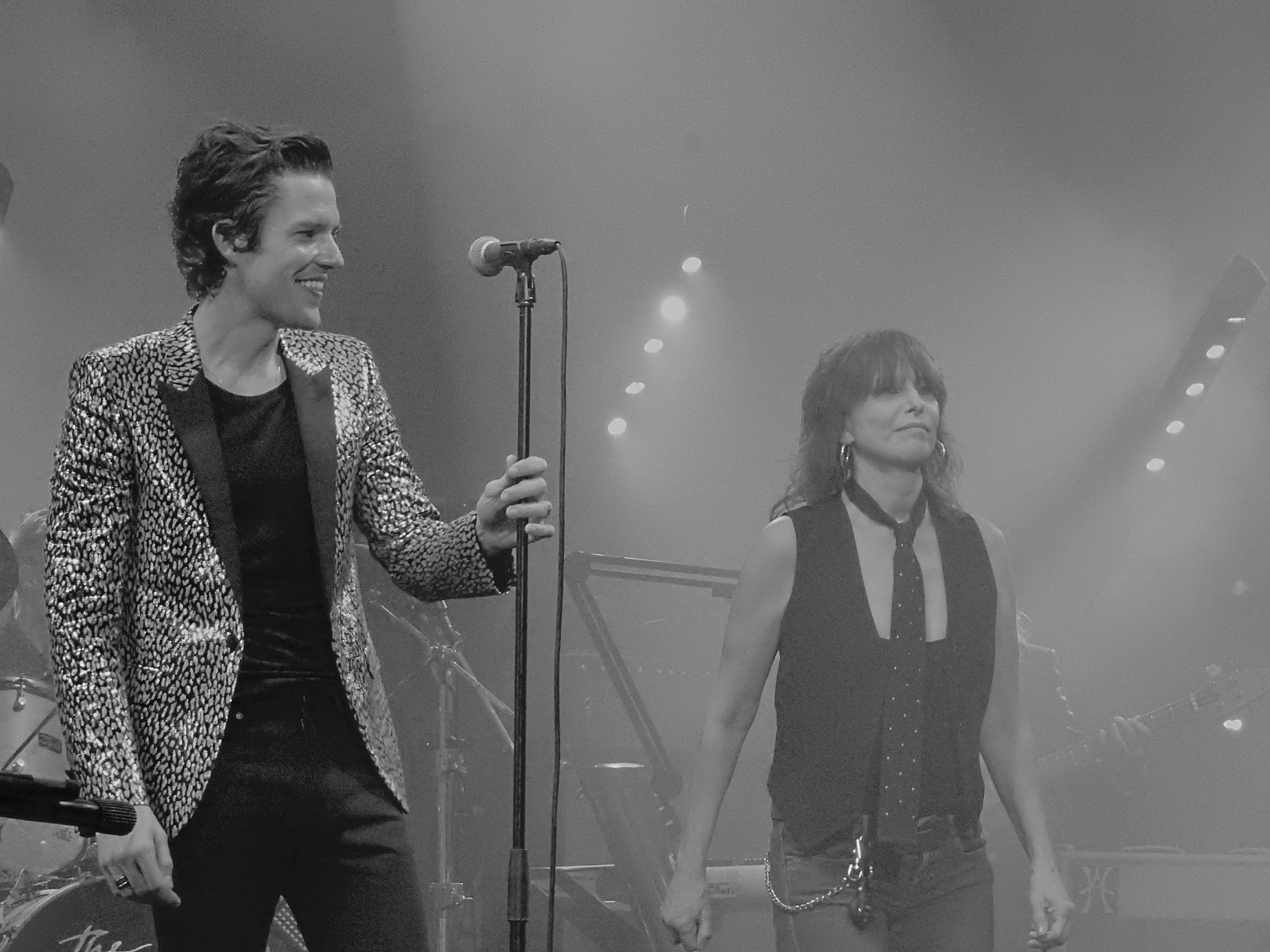 Brandon Flowers (with Chrissie Hynde), Brixton Academy, London